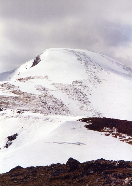 Stob a Choire Mheadhoin Last push for the summit. One of the "Easains".